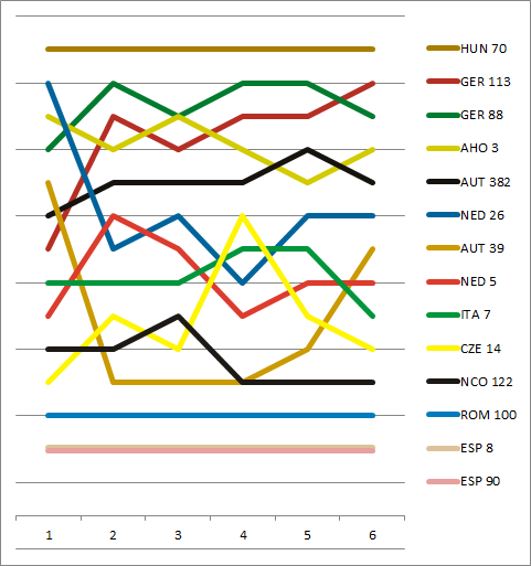 Flying Dutchman Positions during the 2008 Vintage